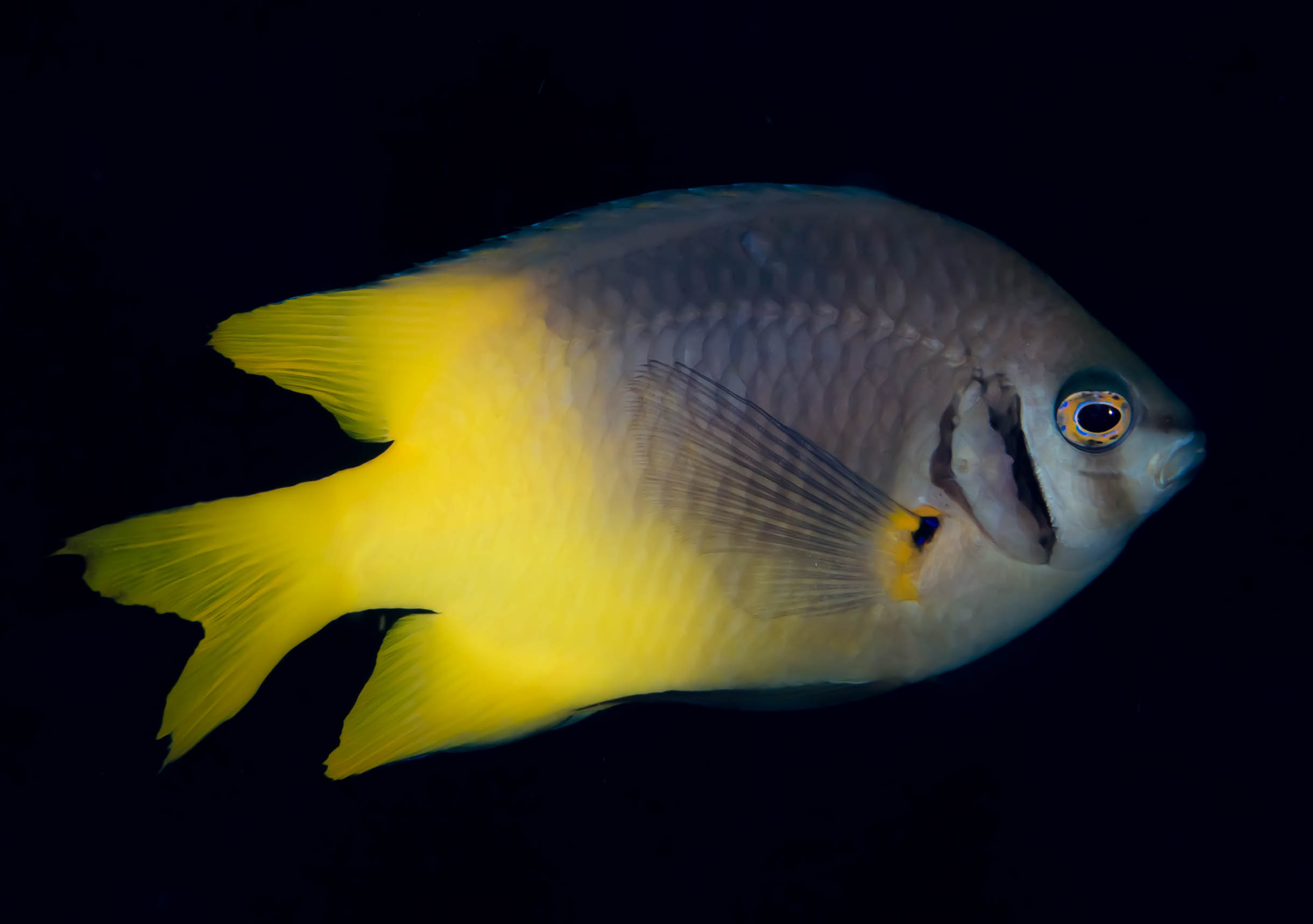 Diving Halmahera with Weda Resort during new years 2016/2017 / Indonesia - Scarface Damsel (Neoglyphidodon nigroris)